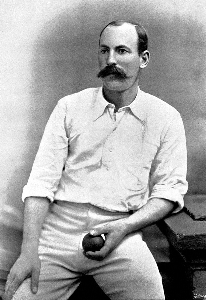 Sport, Cricket, Circa 1895, Frederick Martin, Kent (1885-1899) and England.